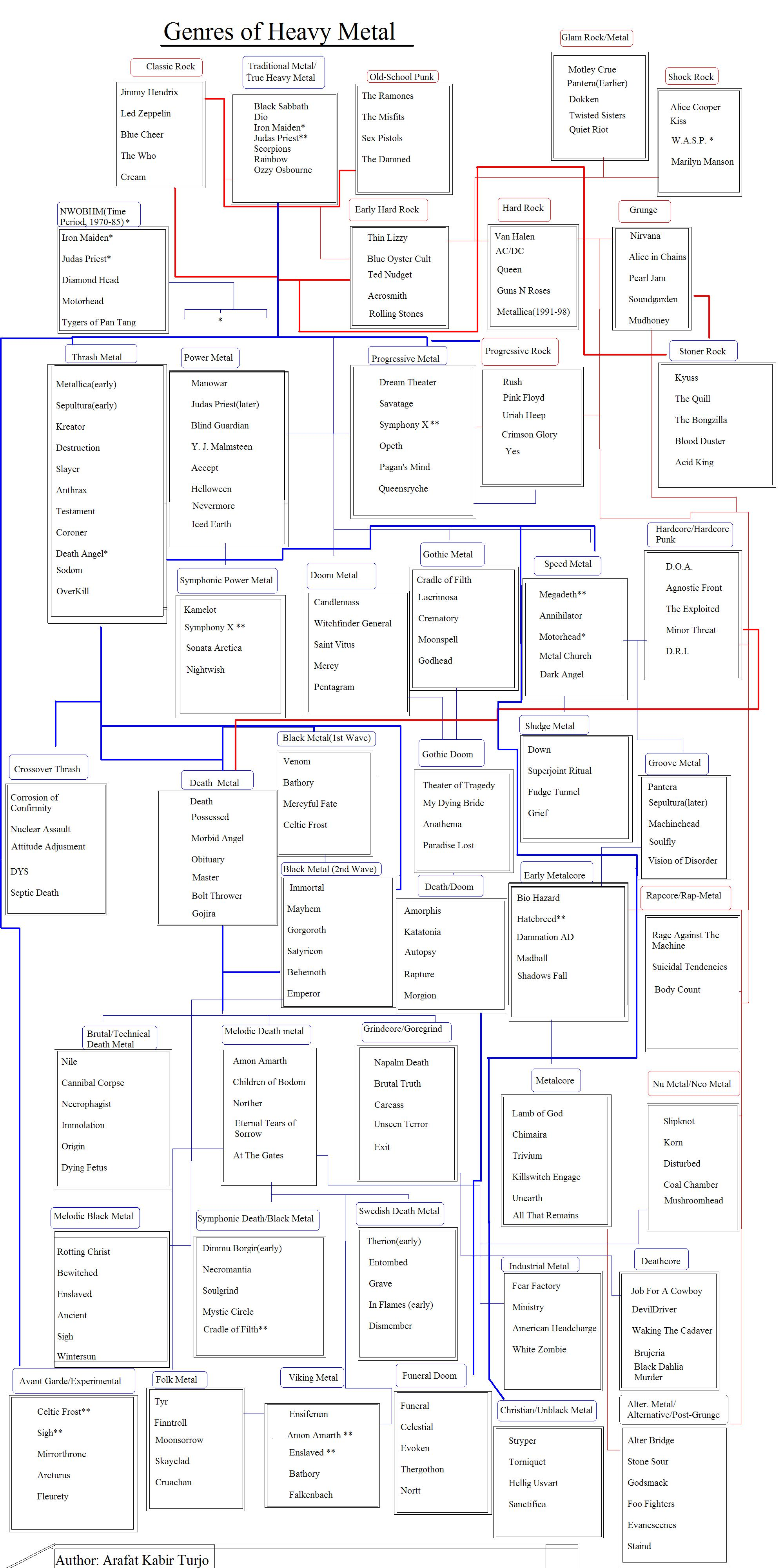 List of Heavy Metal Genres.